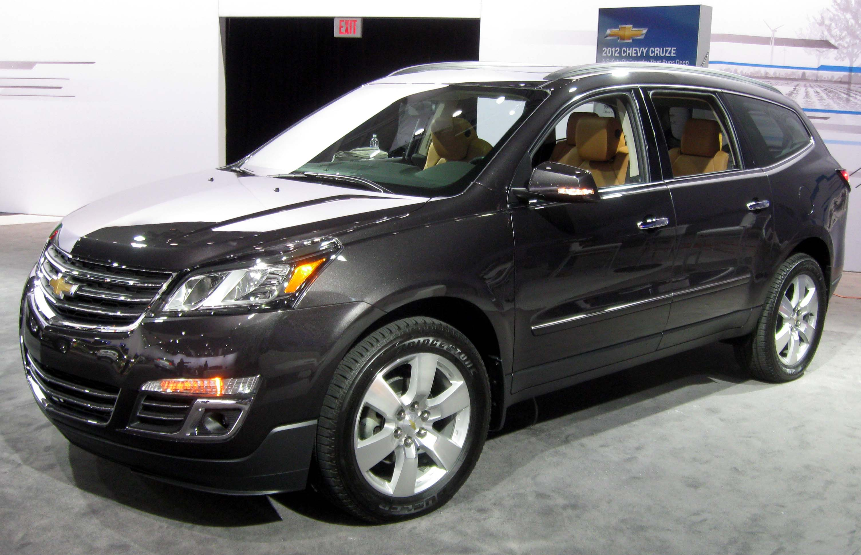 2013 Chevrolet Traverse photographed at the 2012 New York International Auto Show.